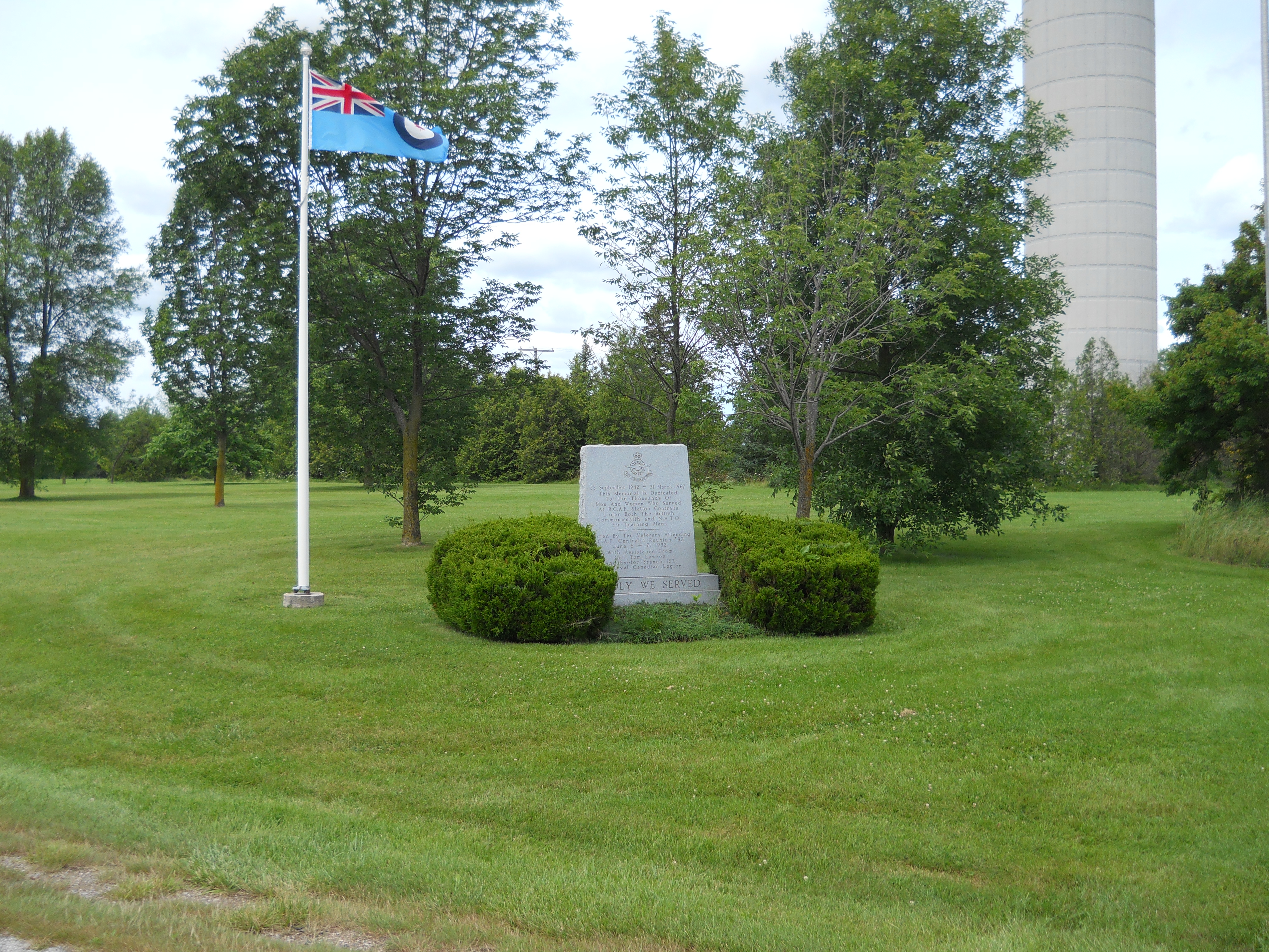 The monument site with the RCAF ensign in flight.